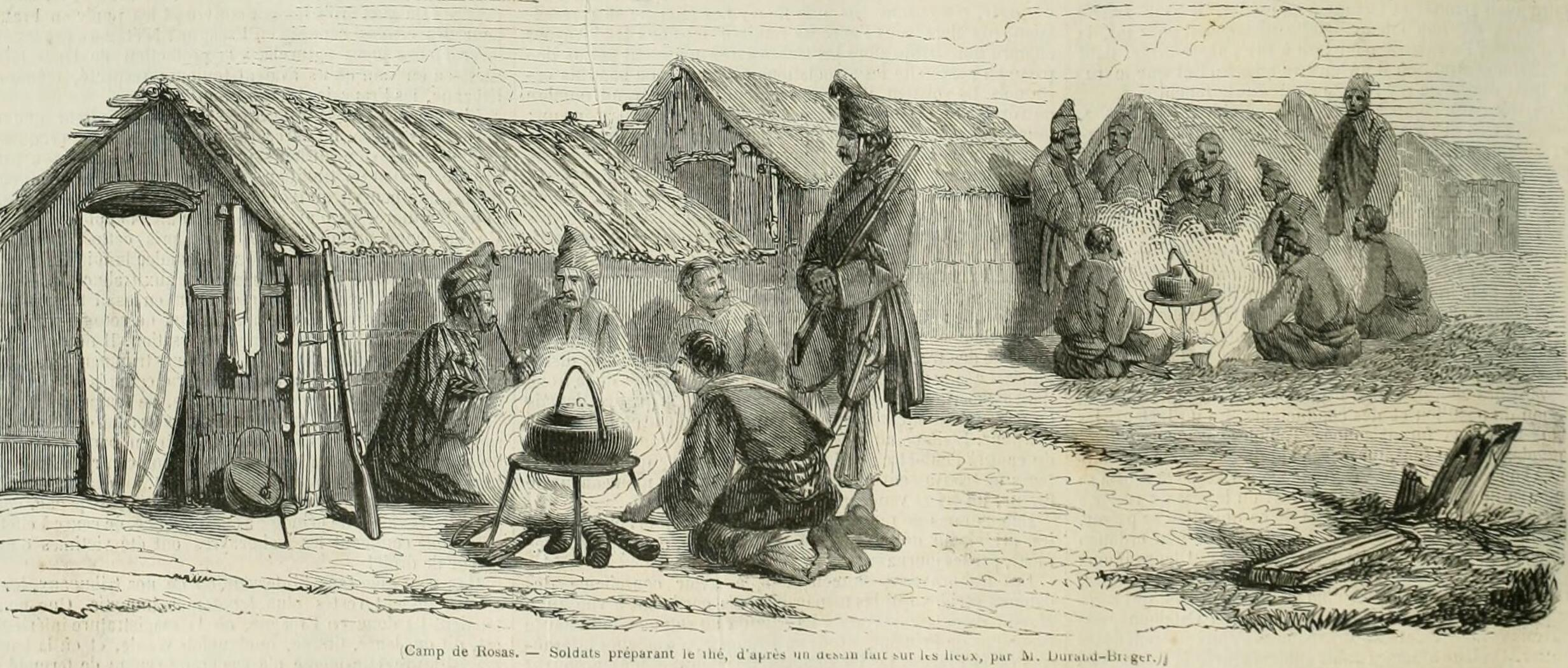 Soldiers preparing tea, one of Juan Manuel de Rosas army camps, Argentina, from a drawing by Jean-Baptiste Henri Durand-Brager (1814-1879), illustration from LIllustration, Journal Universel, No 177, Volume VII, July 18, 1846.